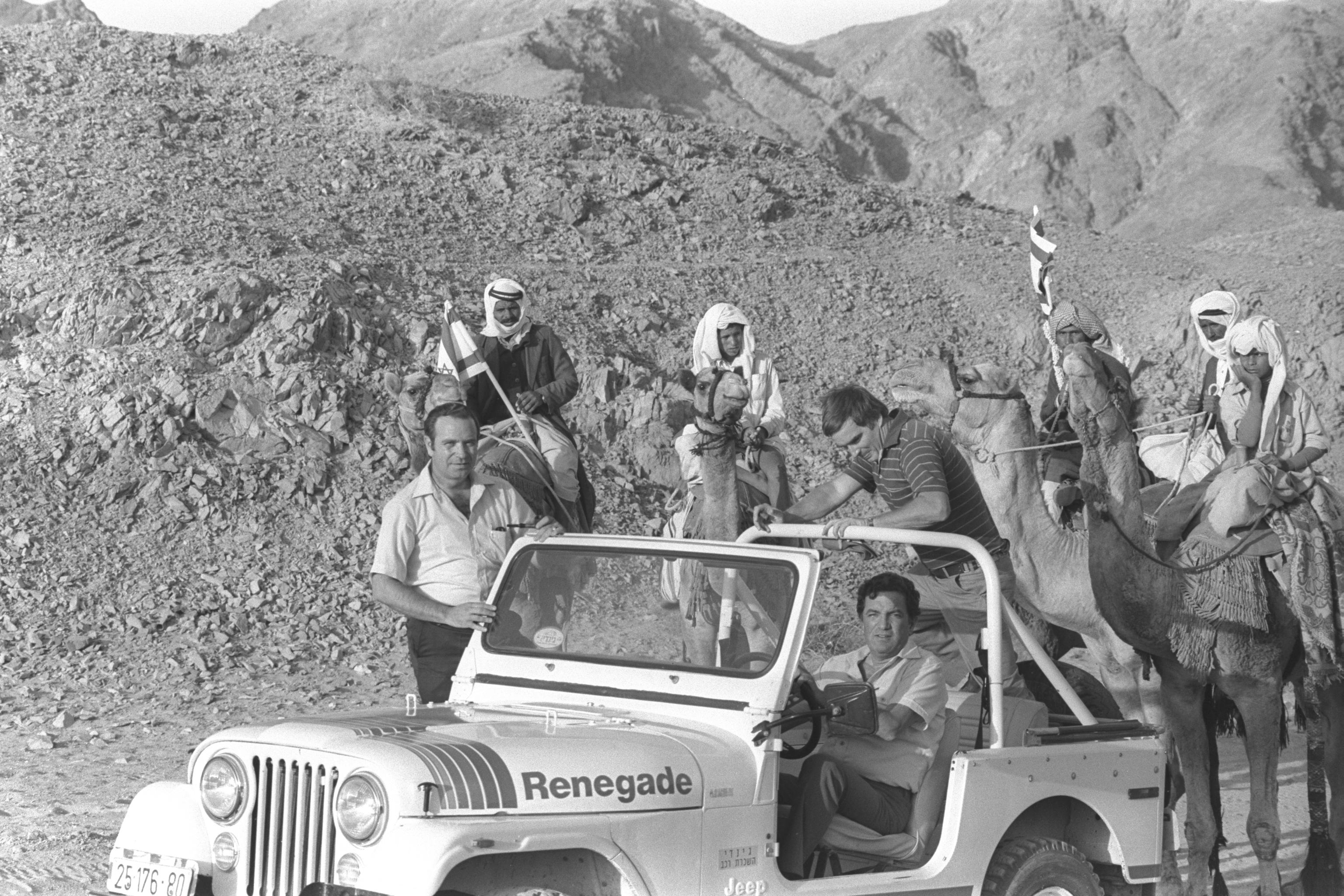 Eilat's mayor, Gadi Katz, and Gideon Pat with an escort of Beduins at the opening of tourism season in Eilat.